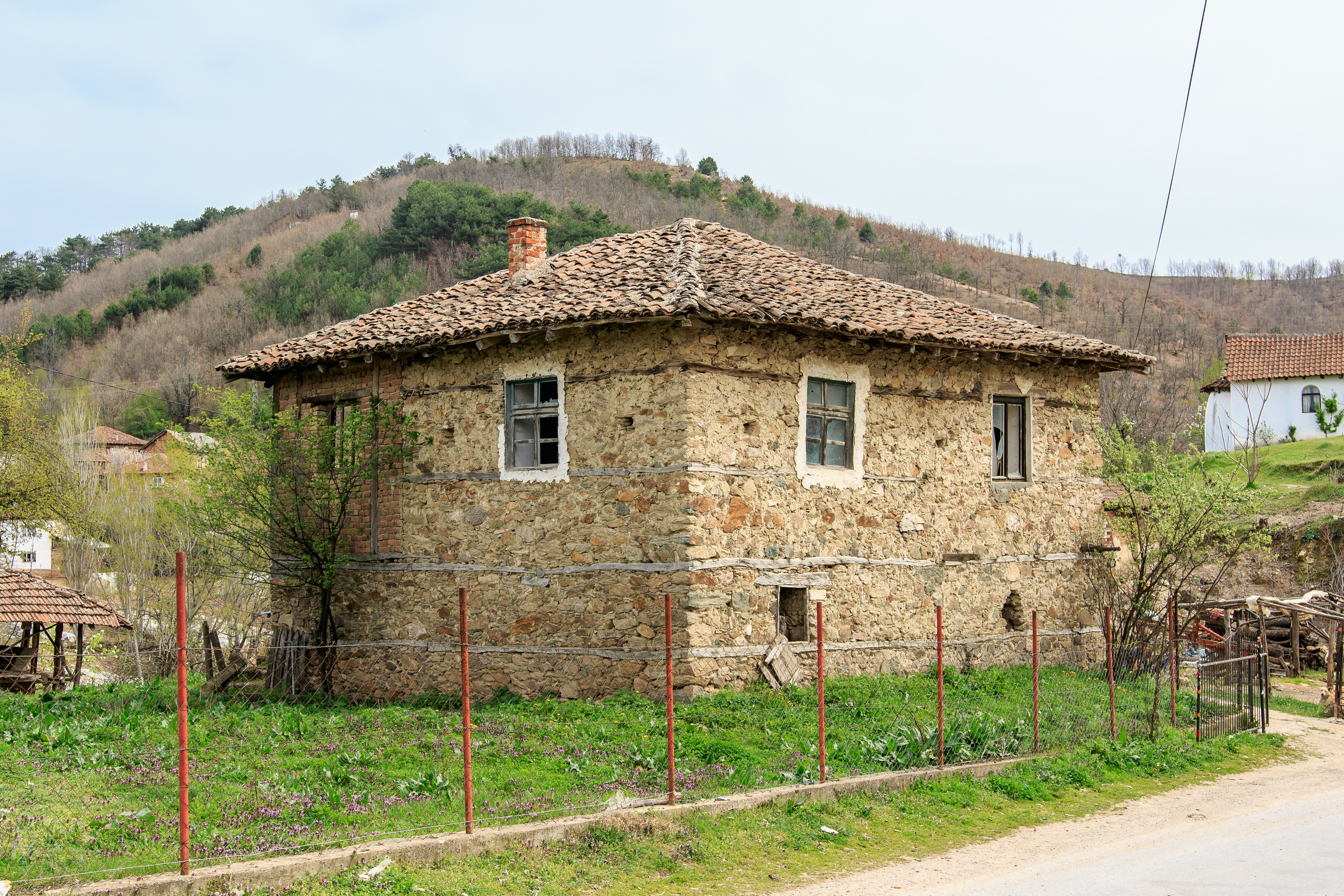 Old house in the village Dedino